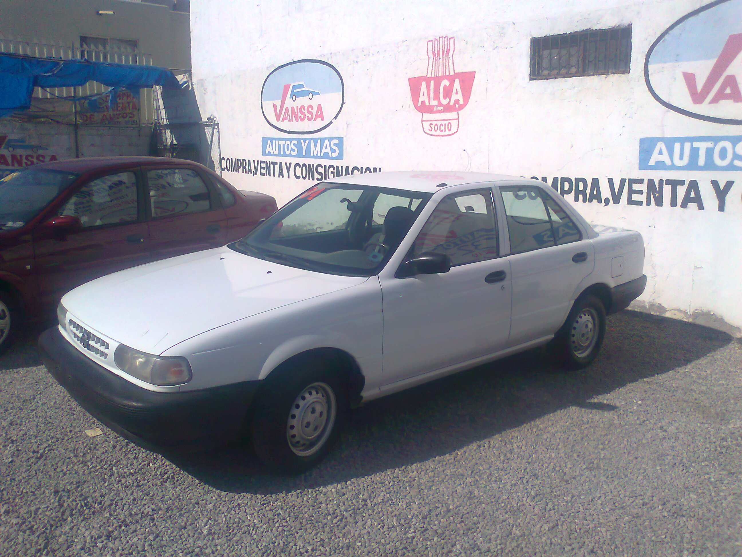 Nissan Tsuru/Sentra in Torreon, Mexico